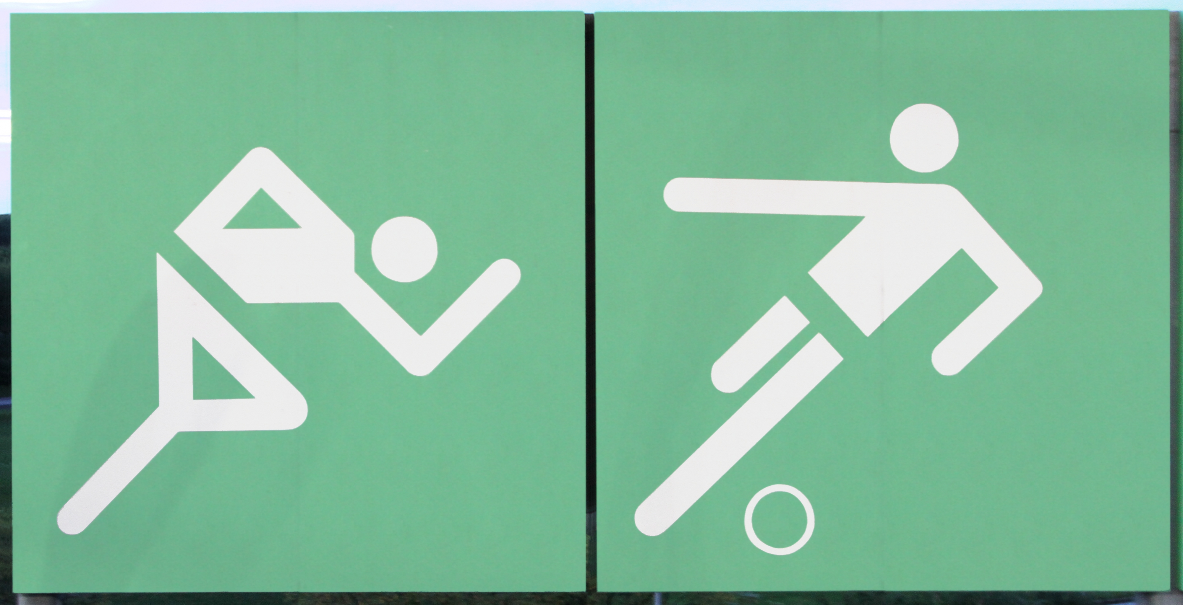 Pictograms of the Olympic Games 1972 in Munich, Germany symbolizing Track and Field (Athletics) and Soccer. Drawn by Otl Aicher, on display at the Olympic stadium